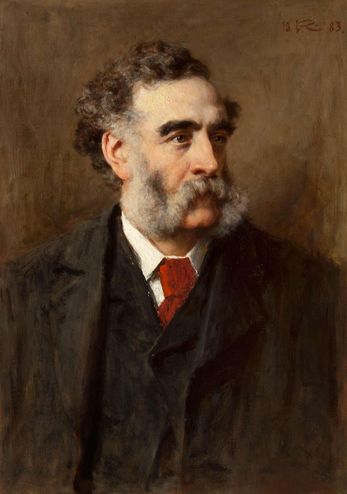 Douglas Argyll Robertson, Oil on canvas